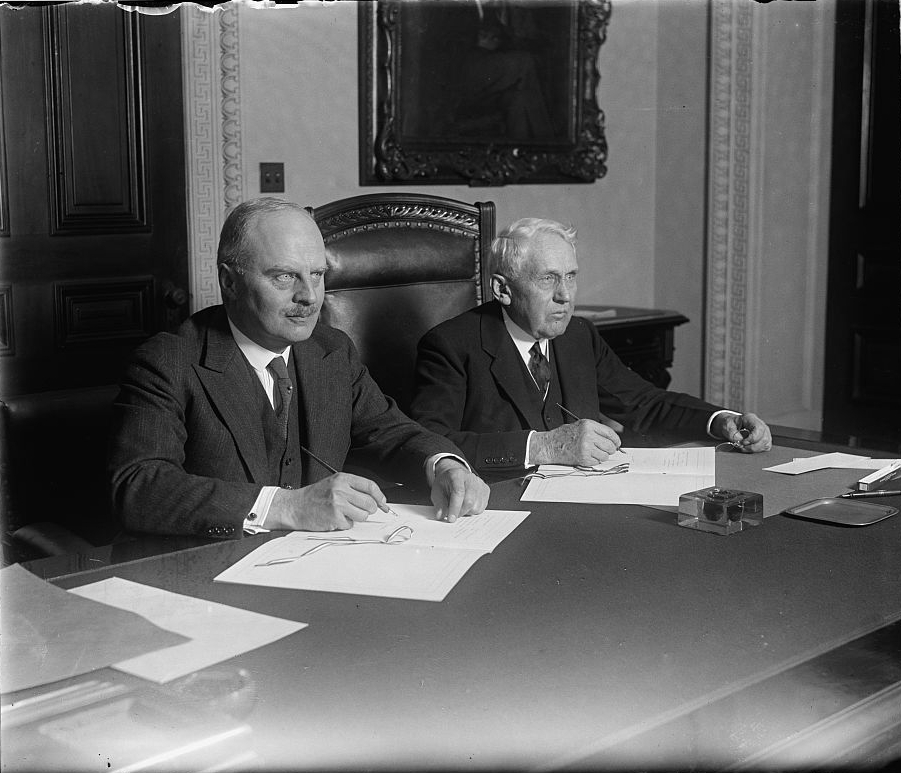 The Norwegian minister at Washington, Halvard Bachke, and the US Secretary of State, Frank B. Kellogg